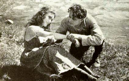 Still from the American film The Flower of the North (1921) with Pauline Starke and Henry B. Walthall, on page 66 of the February 1922 Photoplay.